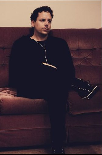 Photo of the Swedish author Andreas Roman during a 2010 interview.